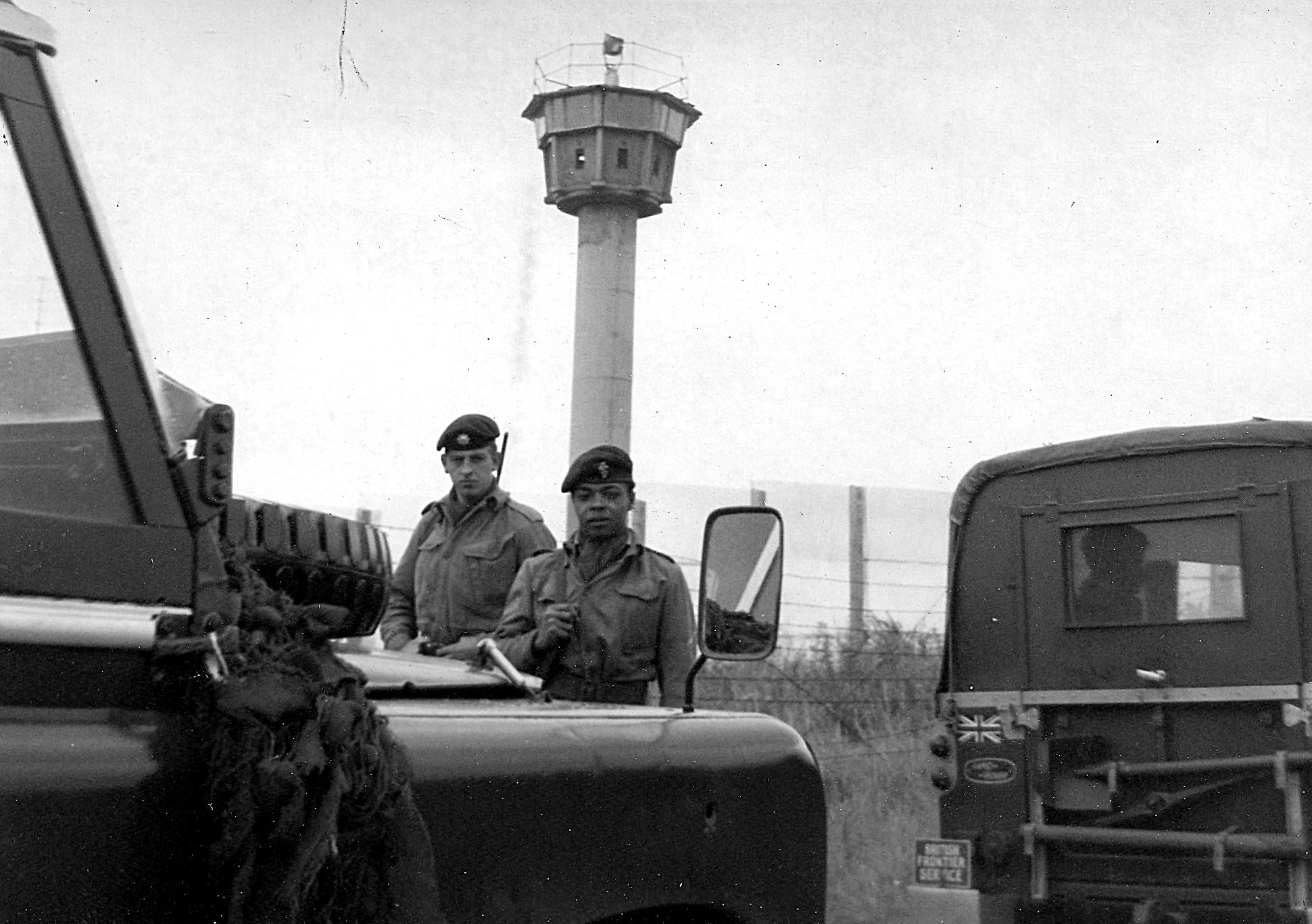 Joint British Army / British Frontier Service patrol on the inner German border between Helmstedt and Wolfsburg.